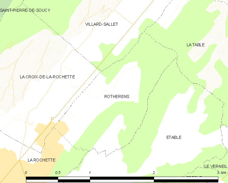 Map of French municipality